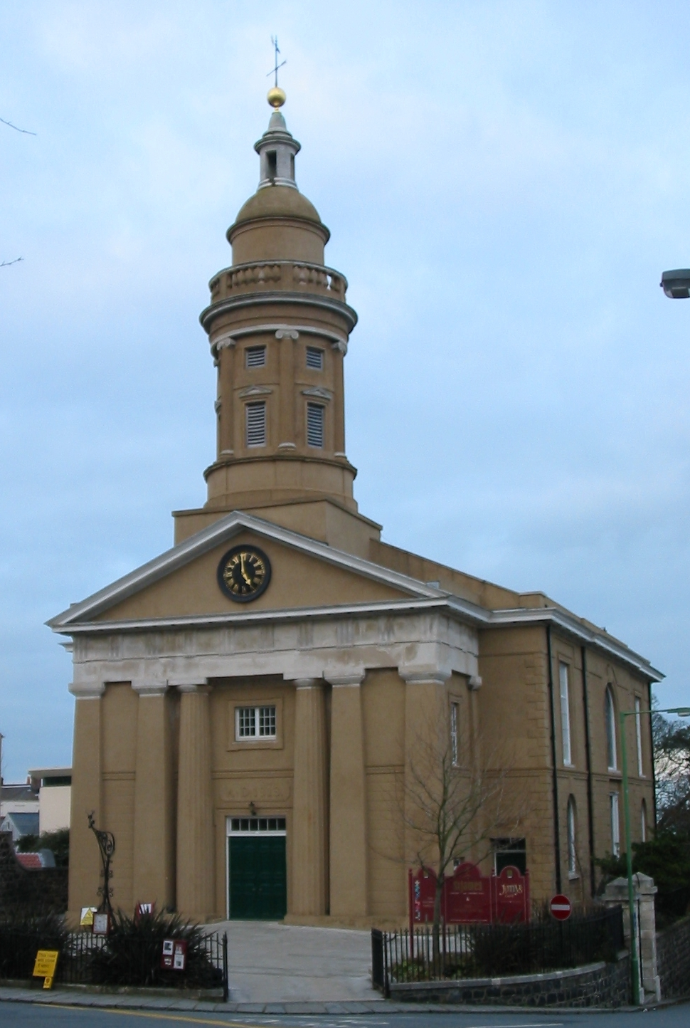 Saint Peter Port, Guernsey